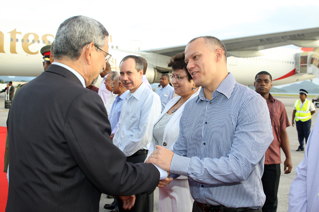 President of Cabo Verde Jorge Carlos Fonseca (left) and Seychelles Foreign Affairs Minister Jean Paul Adam.